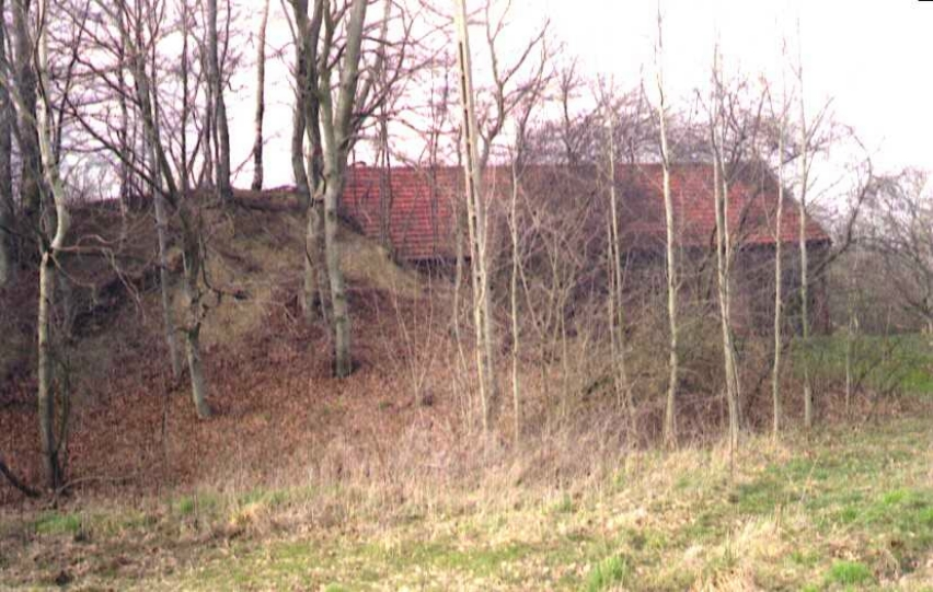 Early medieval fortress in Gałęzinowo